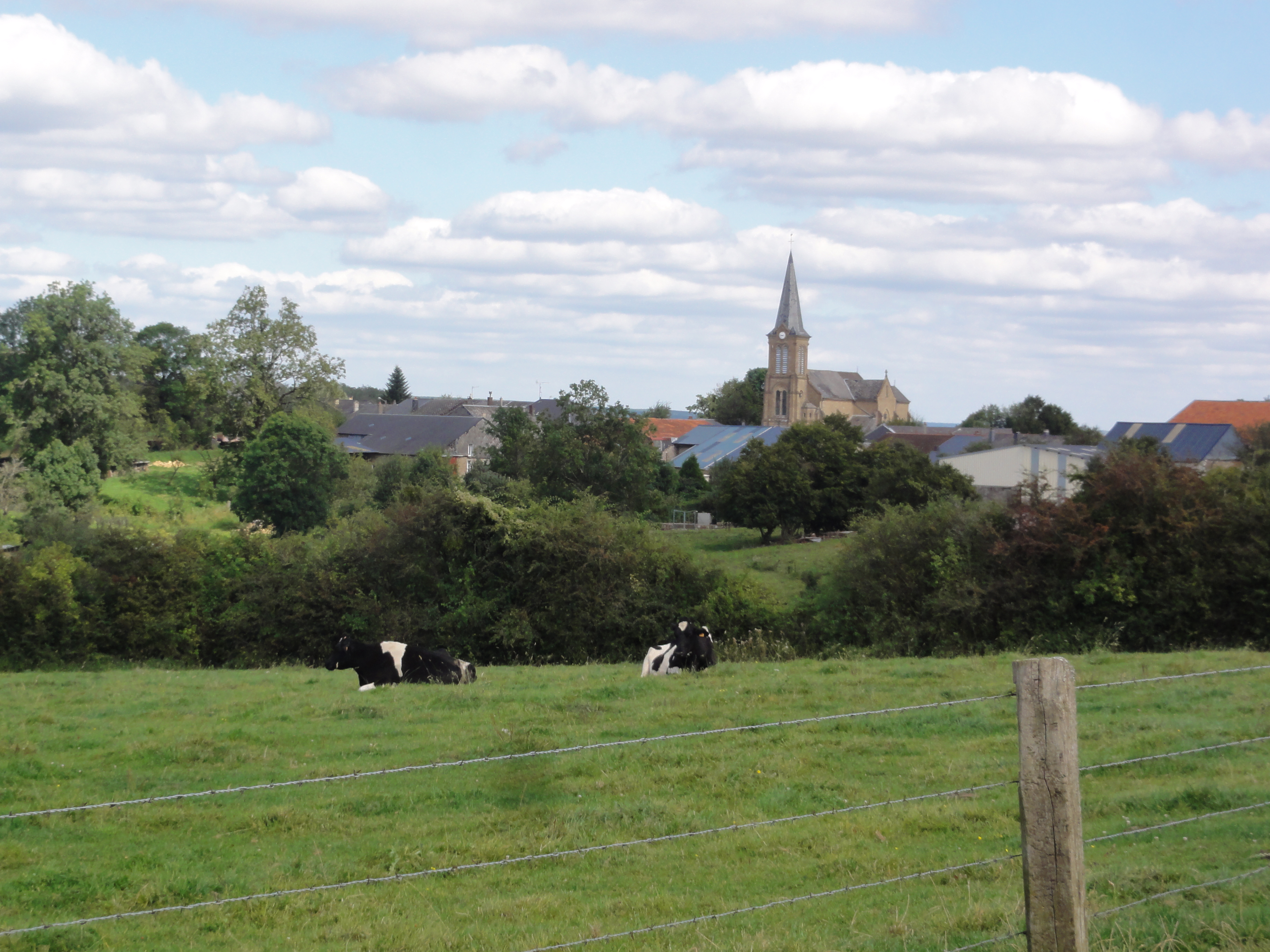 Blombay (Ardennes) vue du village